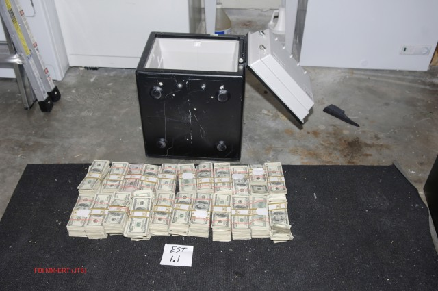 One of four saves with money found in the attic of Chrisopher Paul George's mother. See John Temple: American Pain. How a Young Felon and His Ring of Doctors Unleashed America’s Deadliest Drug Epidemic, End of chapter 6, Lyons Press, Guilford (Connecticut) 2015, ISBN 978-1-4930-1959-5.